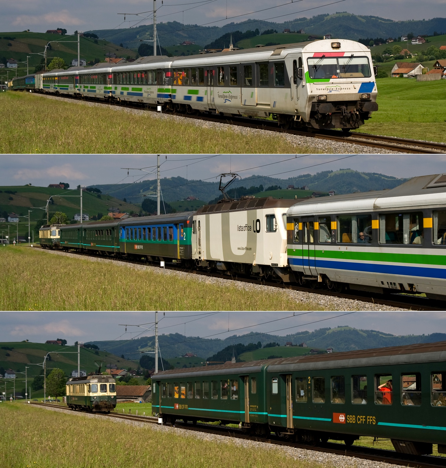 Uncoupled BDe 4/4 electric multiple unit pushing and separating from the Voralpenexpress on the incline between Biberbrugg and Altmatt. The Voralpenexpress normally only consists of the first five coaches and the white Re 456 locomotive; the three green coaches are supplemental coaches which make the train to heavy to be hauled by the Re 456 alone in the 5% grade.